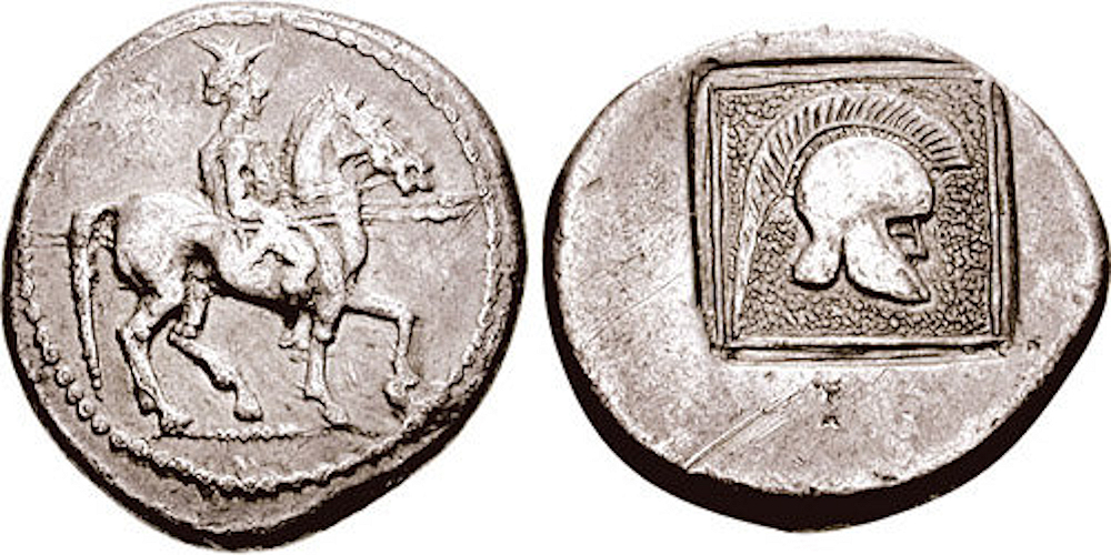 KINGS of MACEDON. Alexander I. 498-454 BC. AR Tetradrachm (13.38 gm, 3h). Struck circa 480-470 BC